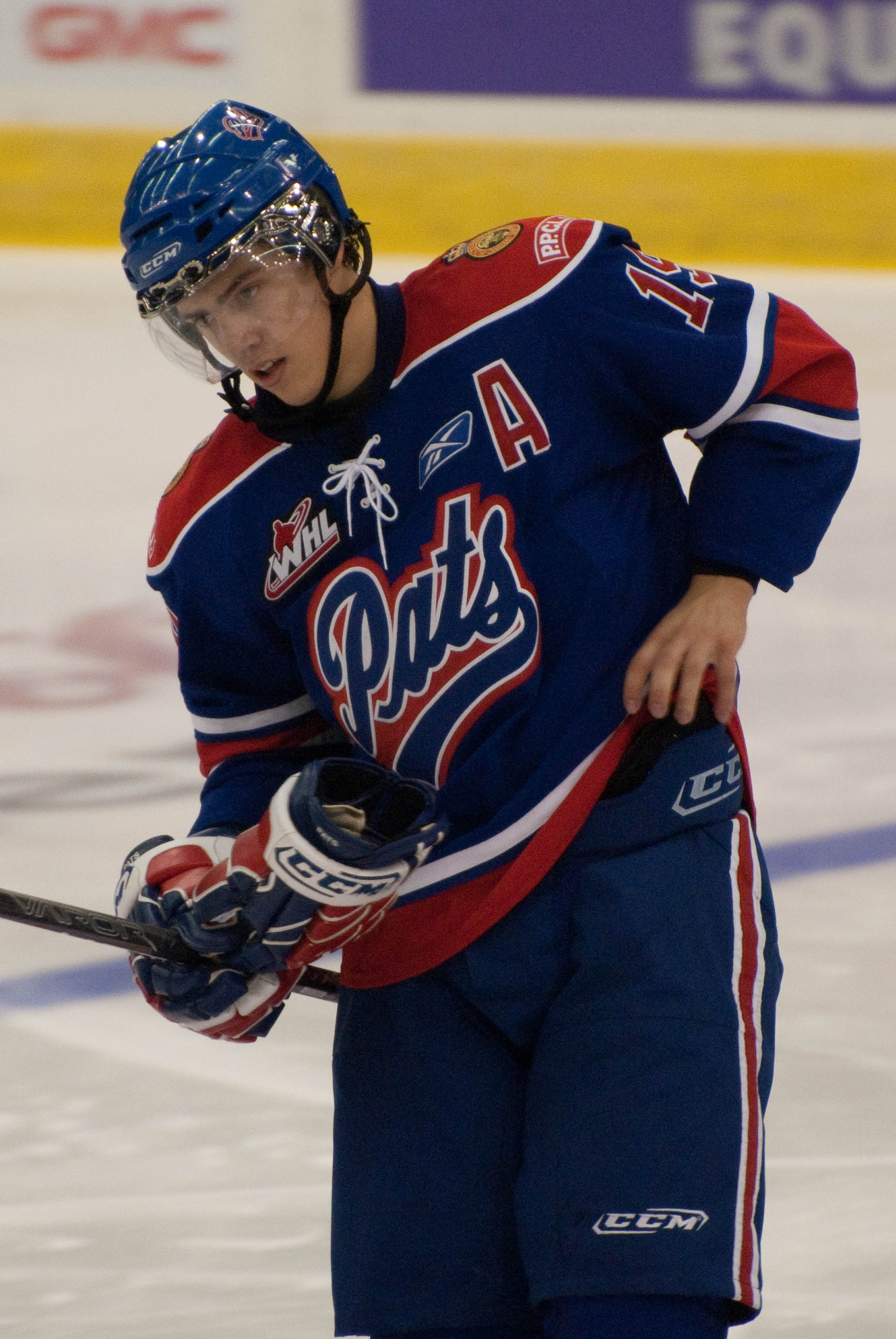 Jordan Weal (October 2010)